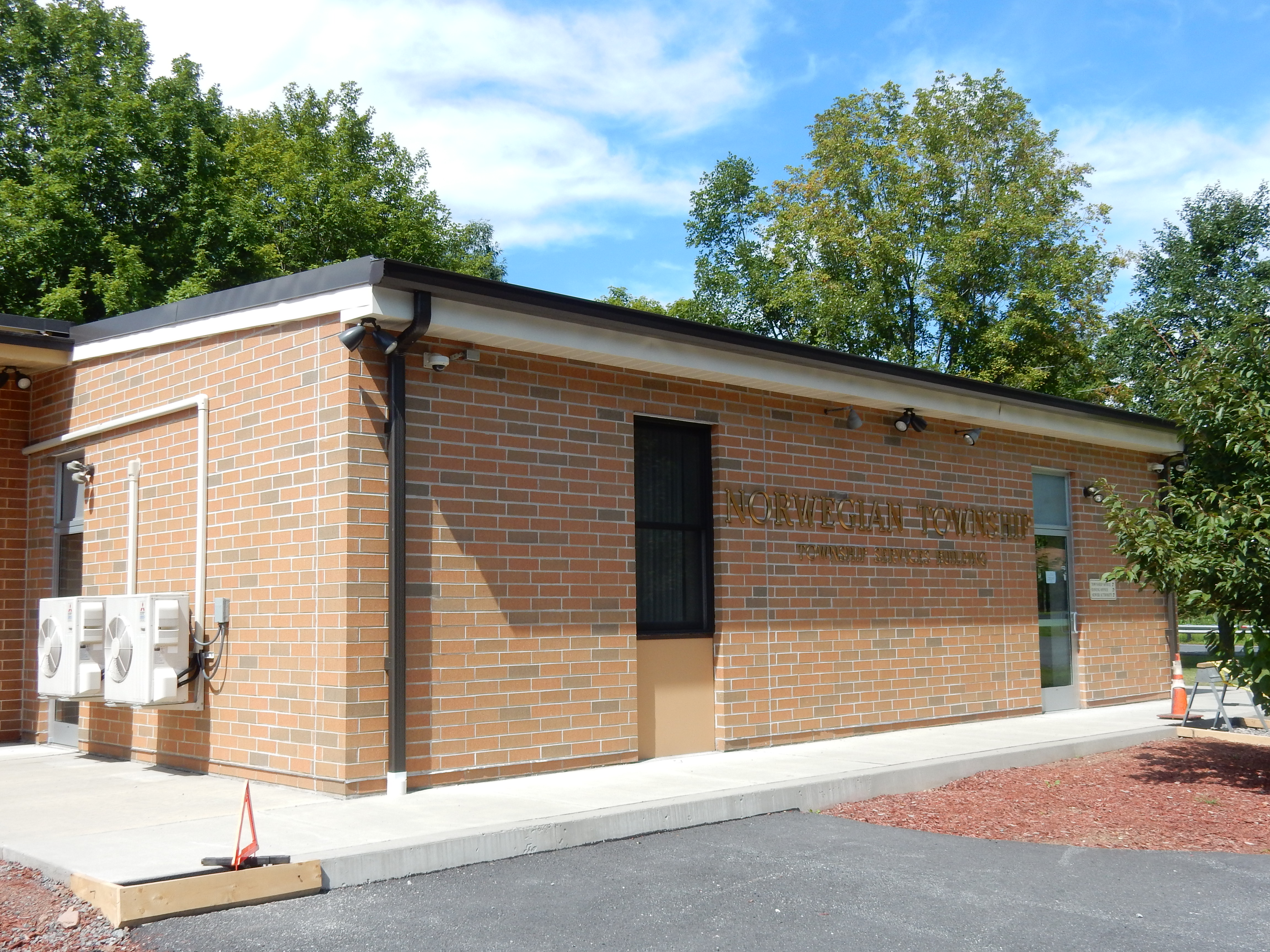 Norwegian Township Services Building, 506 Maple Avenue, Mar Lin, PA.